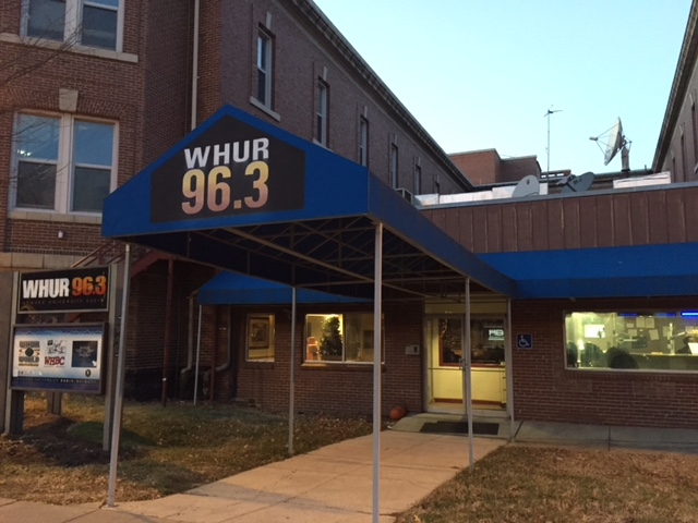 WHUR 96.3 located on the campus of Howard University.